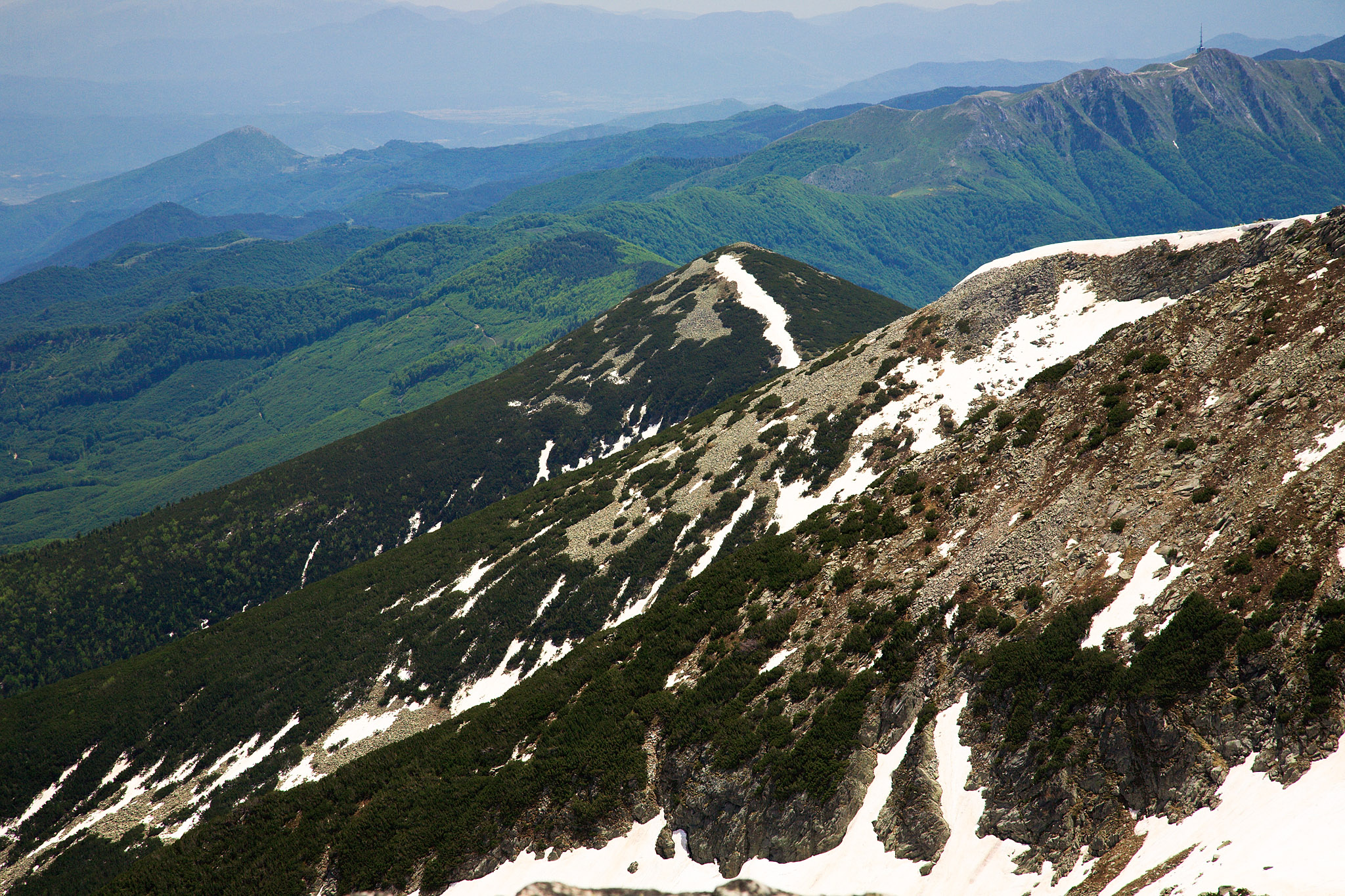 Boykov vrah peak in Pirin mountains, Bulgaria